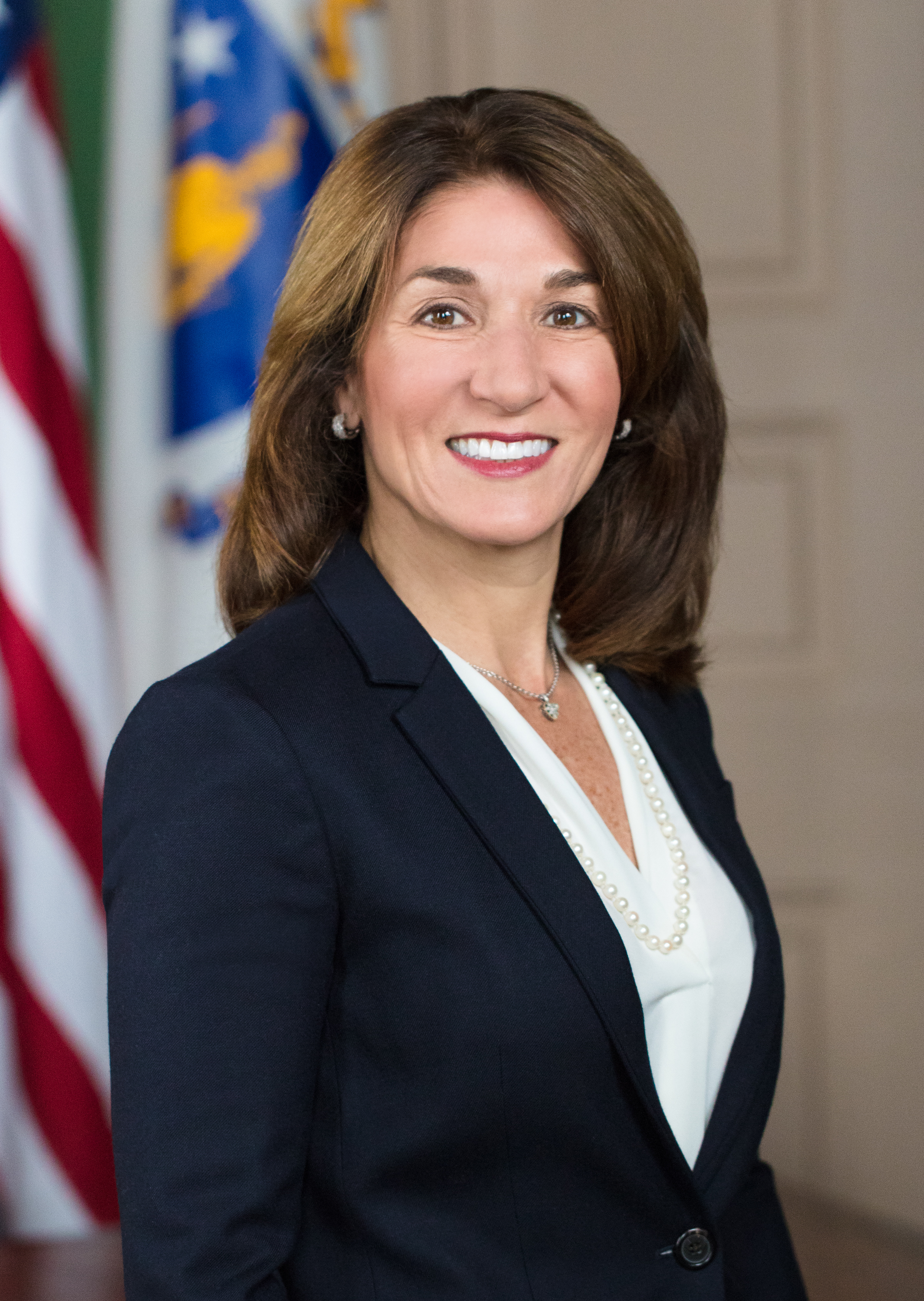 Karyn Polito official photo